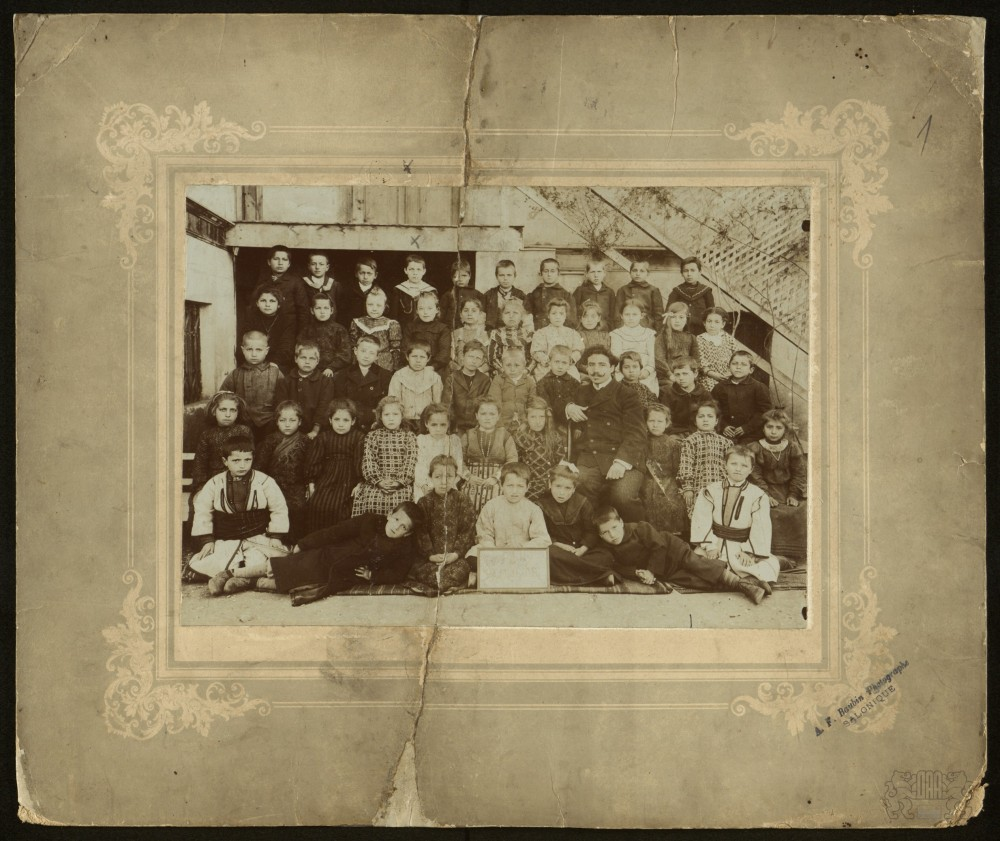 Dimitar_Sprostranov_and_other_pupils_in_the_Thessaloniki_Bulgarian_School_in_Pirgi_1905.